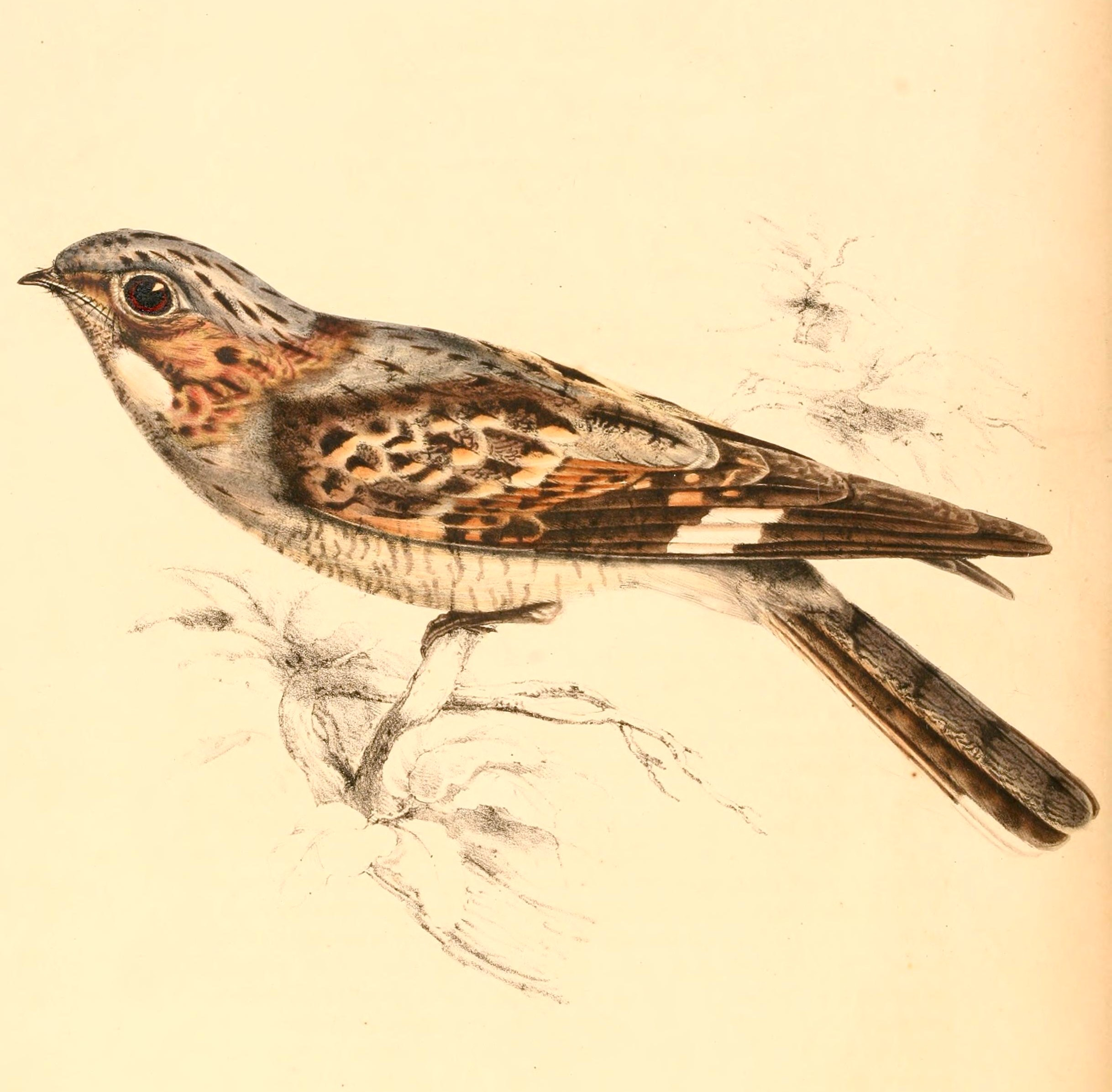 « Caprimulgus rufigena » = Caprimulgus rufigena rufigena (Subspecies of Rufous-cheeked Nightjar) - male